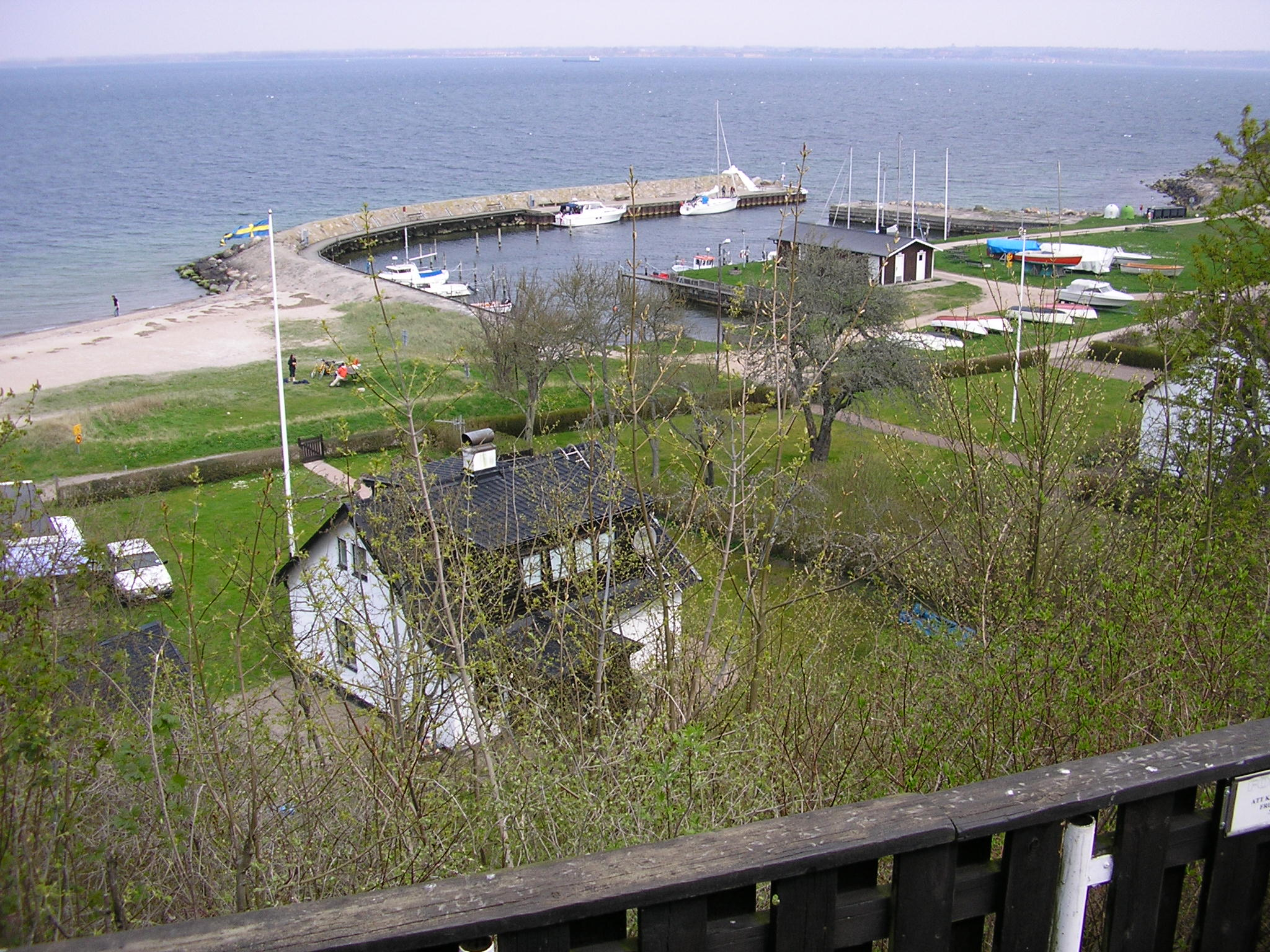 Norreborg harbour on the island of Ven in Öresund seen from the Vacation Home